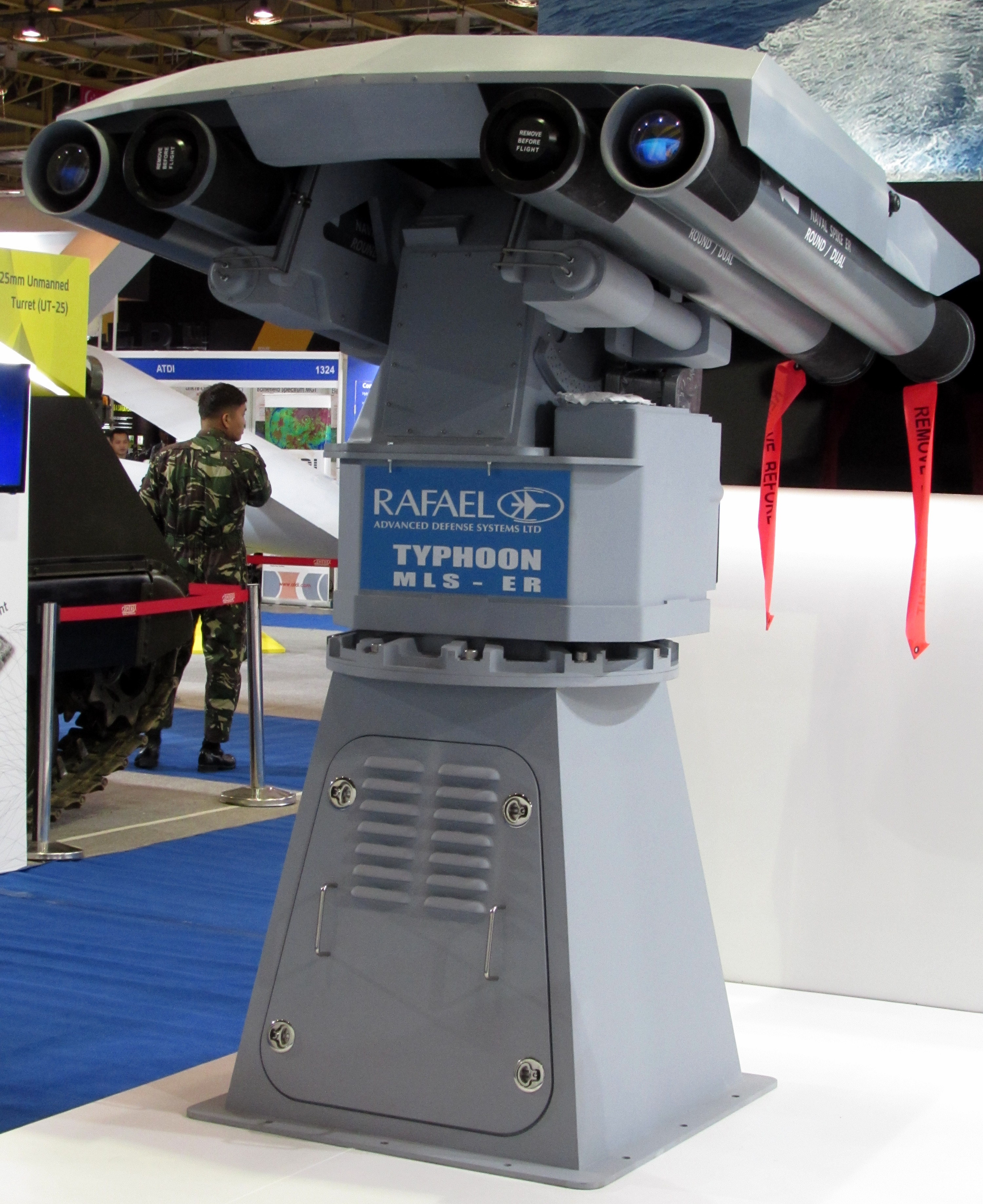 Left side view of a Typhoon MLS ER launcher by Rafael. This is reportedly is what our Multi Purpose Attack Craft (MPAC) Mk3 will have. Photo taken during the 2016 Asian Defence and Security (ADAS) Trade Show at the World Trade Center in Pasay, Metro Manila